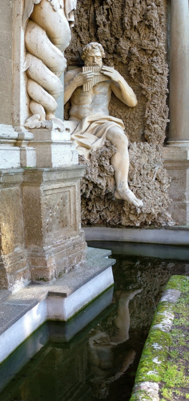 Frascati, Villa Aldrobandini - Polyphemus (Jaques Sarazin 1621 circa).